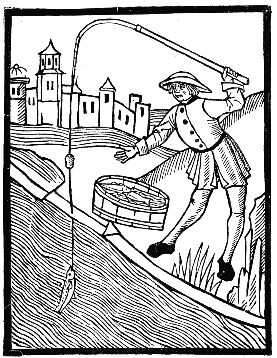 'Fyshynge wyth an Angle', from Book of Saint Albans